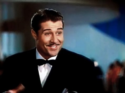 Don Ameche in Down Argentine Way - trailer (cropped screenshot)